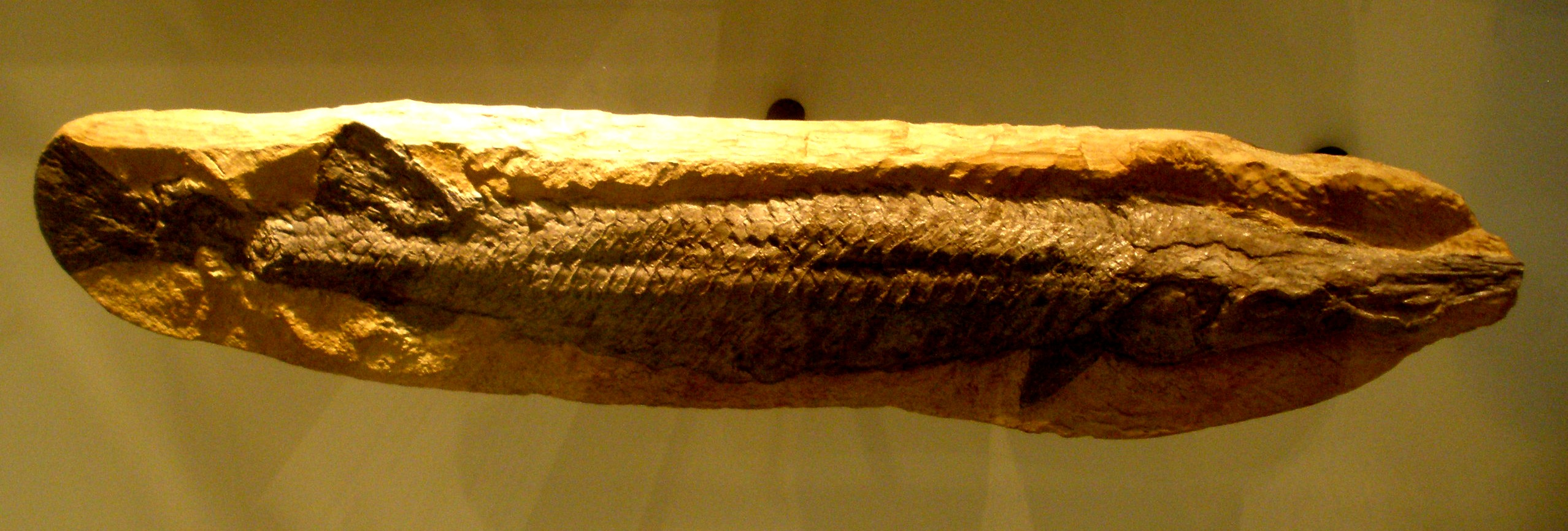 Skeleton of Obaichthys decoratus, a fossil gar-like basal neopterygian fish preserved in a nodule recovered from the late Lower Cretaceous (? Albian) Santana formation of Brazil.